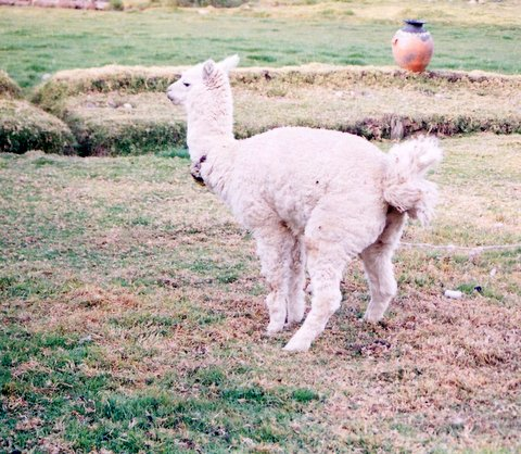 Defecated alpaca in Peru